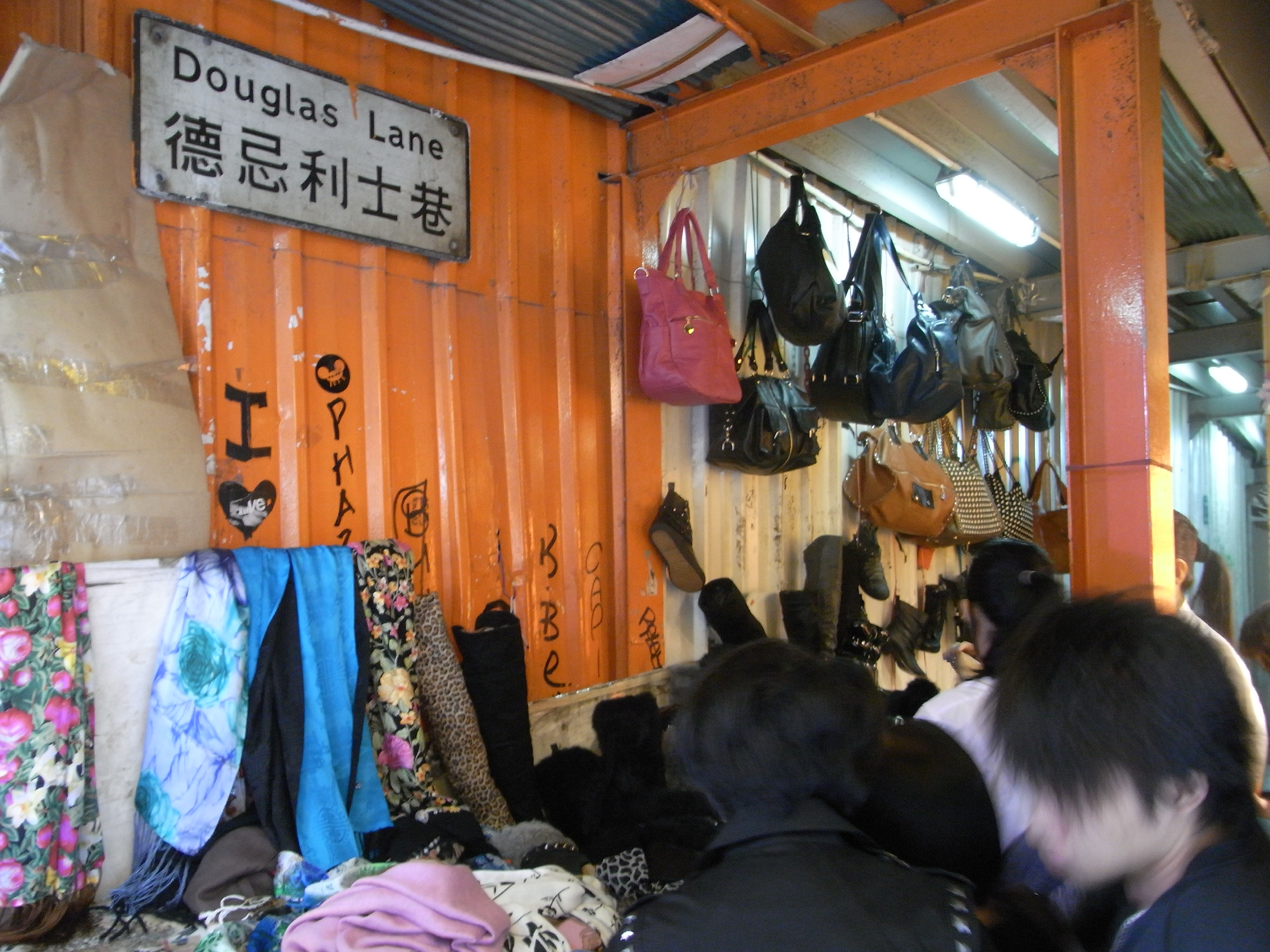 香港島中環